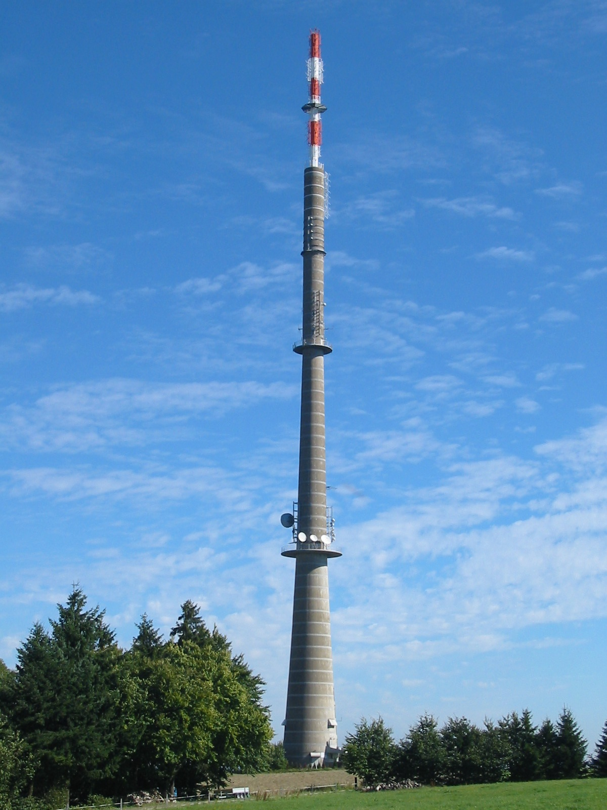 Total view of radio transmission tower Eifel-Bärbelkreuz operated by WDR, situated near Dahlem in the south-western part of North Rhine-Westphalia, Germany.